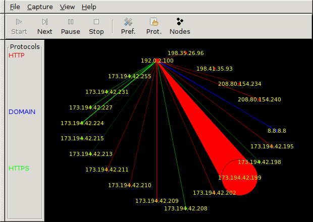 Screenshot of etherape